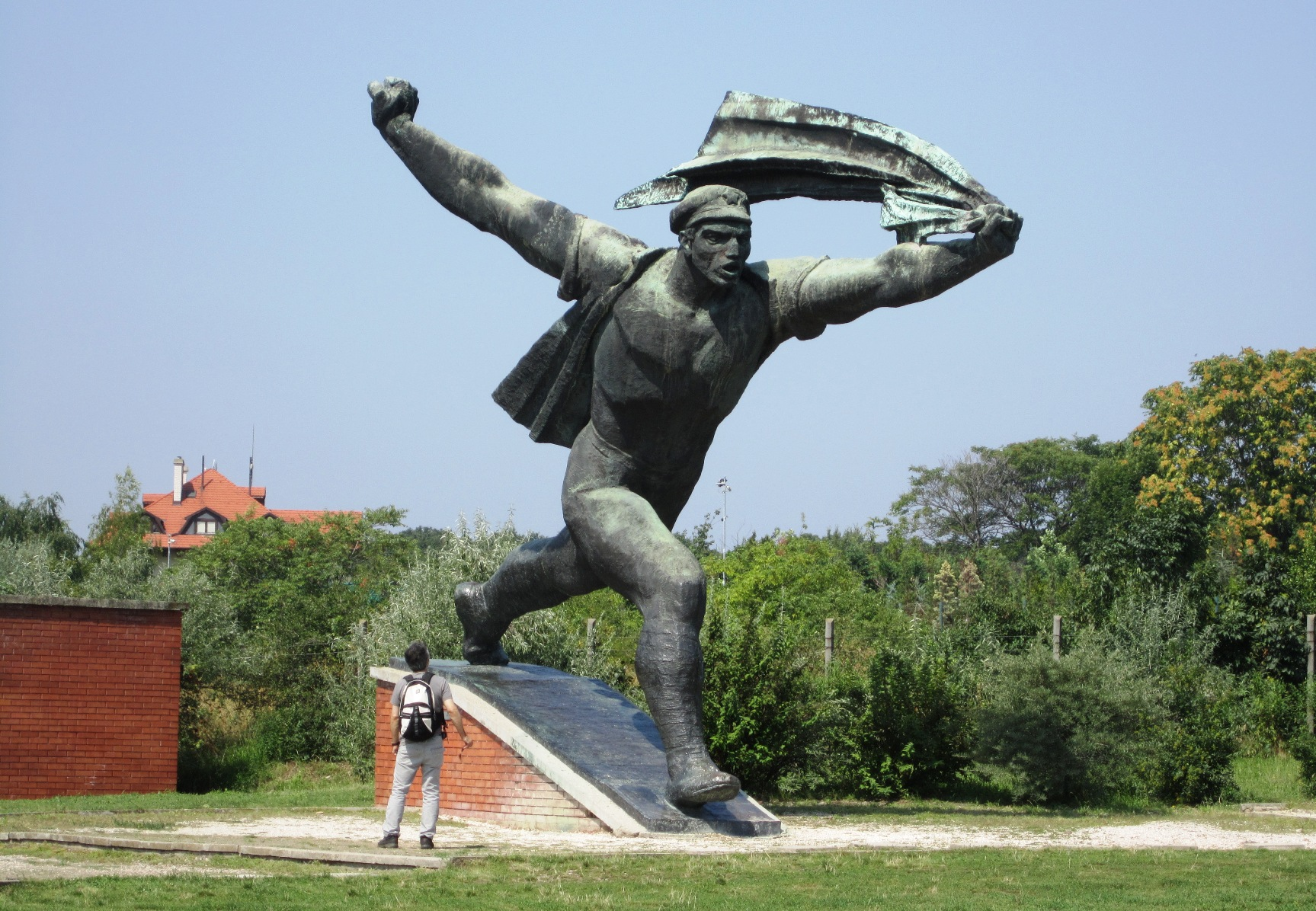 Memento Park